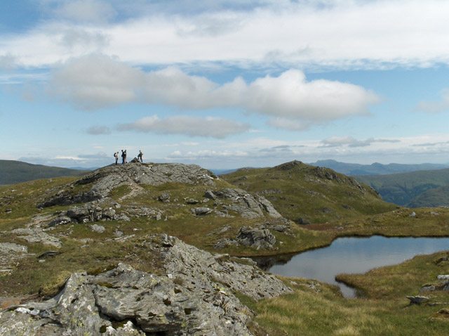 Beinn a' Chroin. The summit (942 metres) and the east summit (in NN3917). The latter is 2 metres lower.